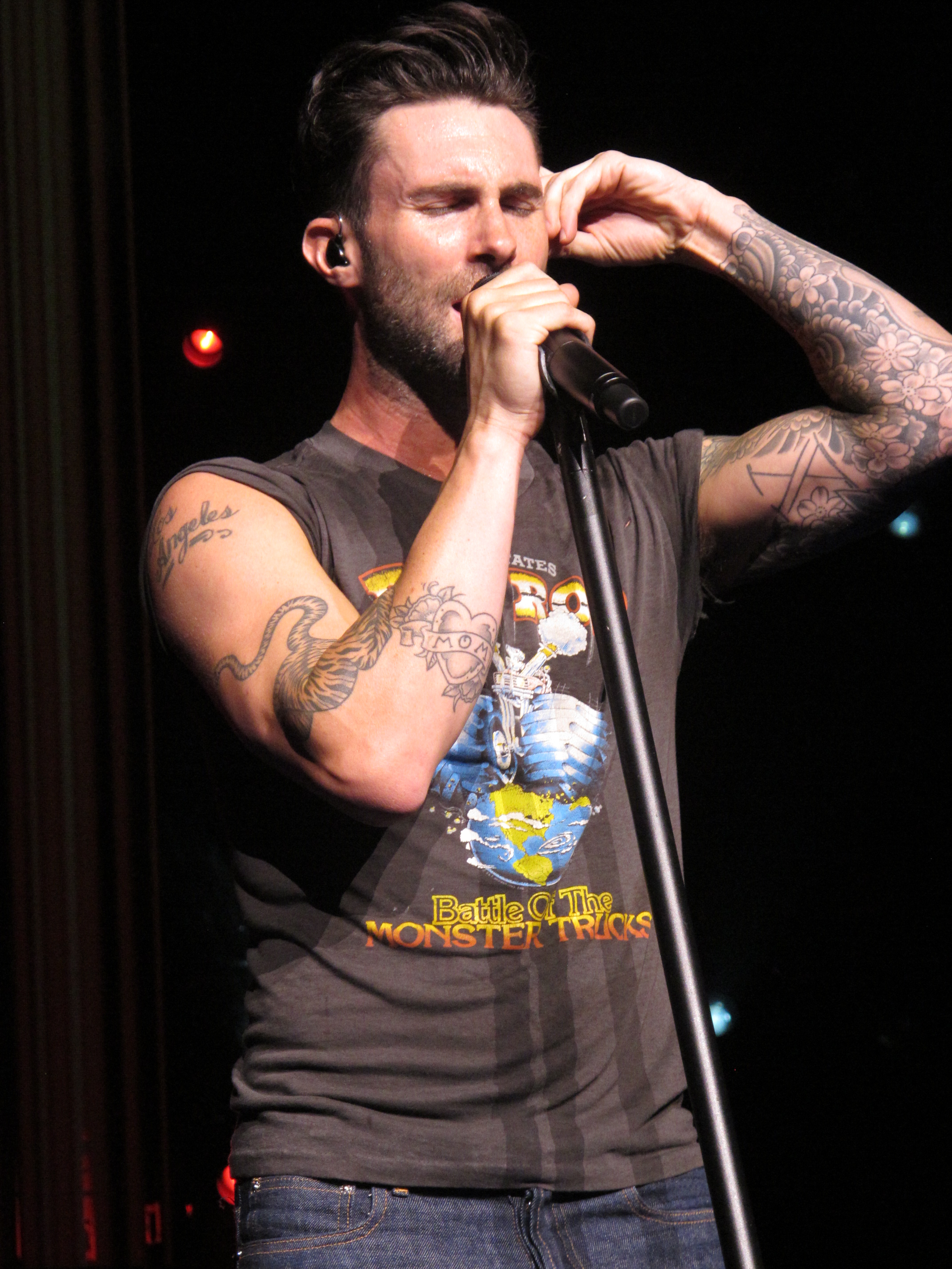 Adam Levine performing live onstage in 2014